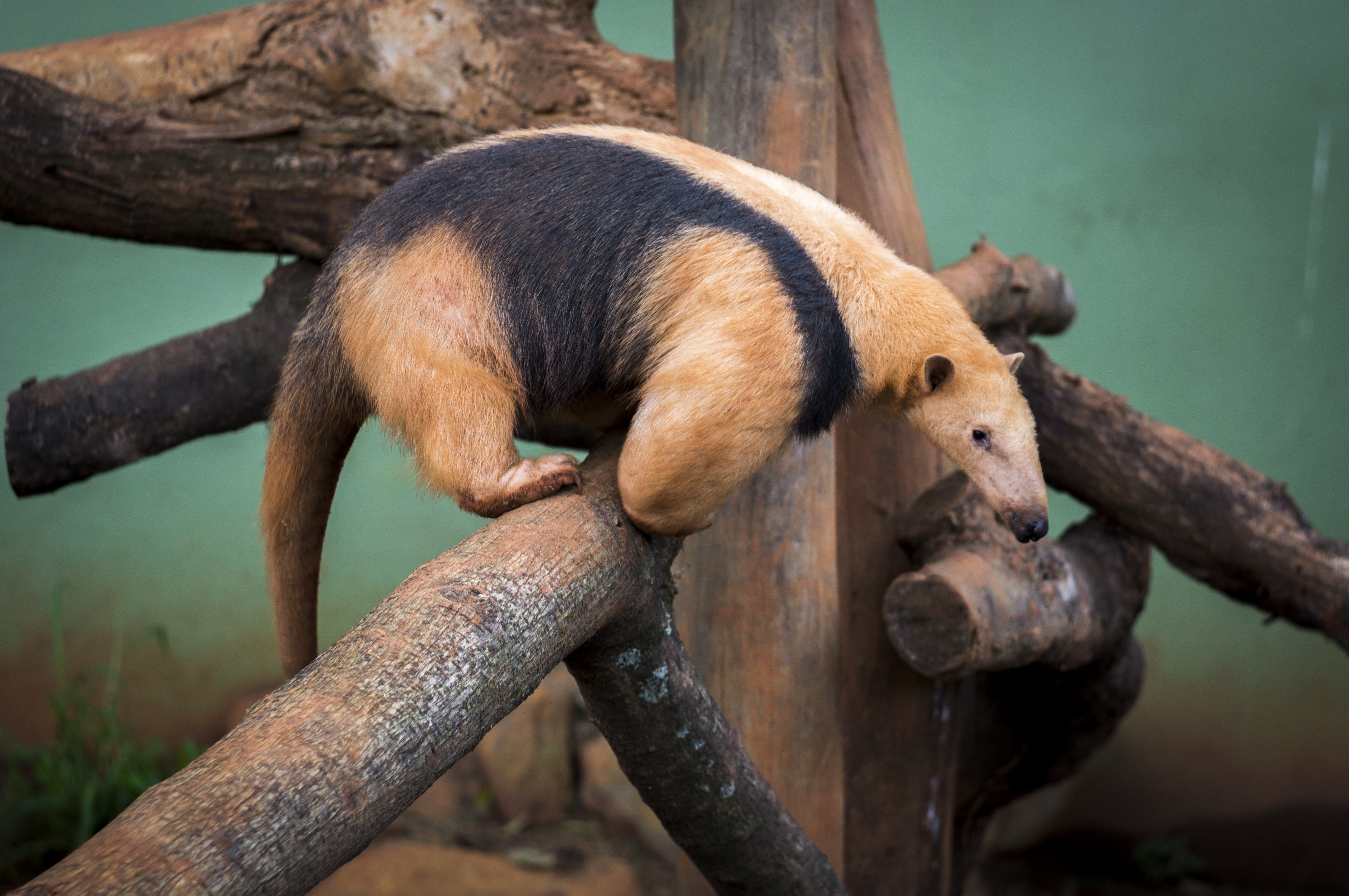 TAMANDUÁ-MIRIM / SOUTHERN TAMANDUA ORDEM / Order: Xenarthra FAMÍLIA / Family: Myrmecophagidae NOME POPULAR / Popular name: Tamanduá-mirim (Southern Tamandua) NOME EM INGLÊS / English name: Lesser anteater NOME CIENTÍFICO / Scientific name: Tamandua tetradactyla DISTRIB. GEOGRÁFICA / Geographical distribution: América do Sul (South America) HÁBITOS ALIMENTARES / Eating habits: Insetívoro (Insectivorous) REPRODUÇÃO / Copulation: Gestação de 130 a 190 dias, geralmente 1 filhote (Gestation 130-190 days, usually 1 puppy) PERÍODO DE VIDA / Lifecycle: Aproximadamente 9 anos (About 9 years) HABITAT: Campo, florestas (Countryside, forests)